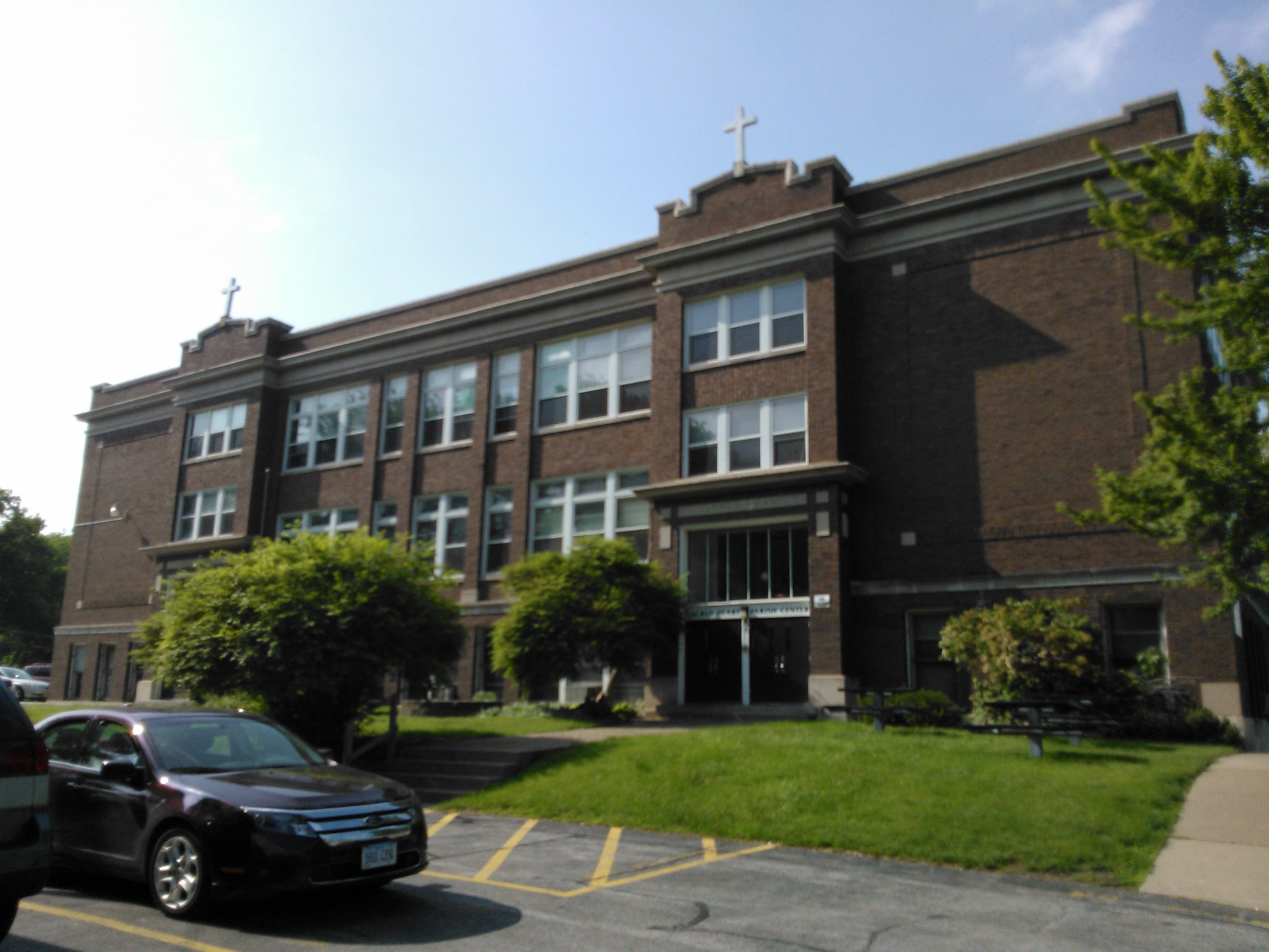 The former Sacred Heart School in Davenport, Iowa serves as the parish center for Sacred Heart Cathedral